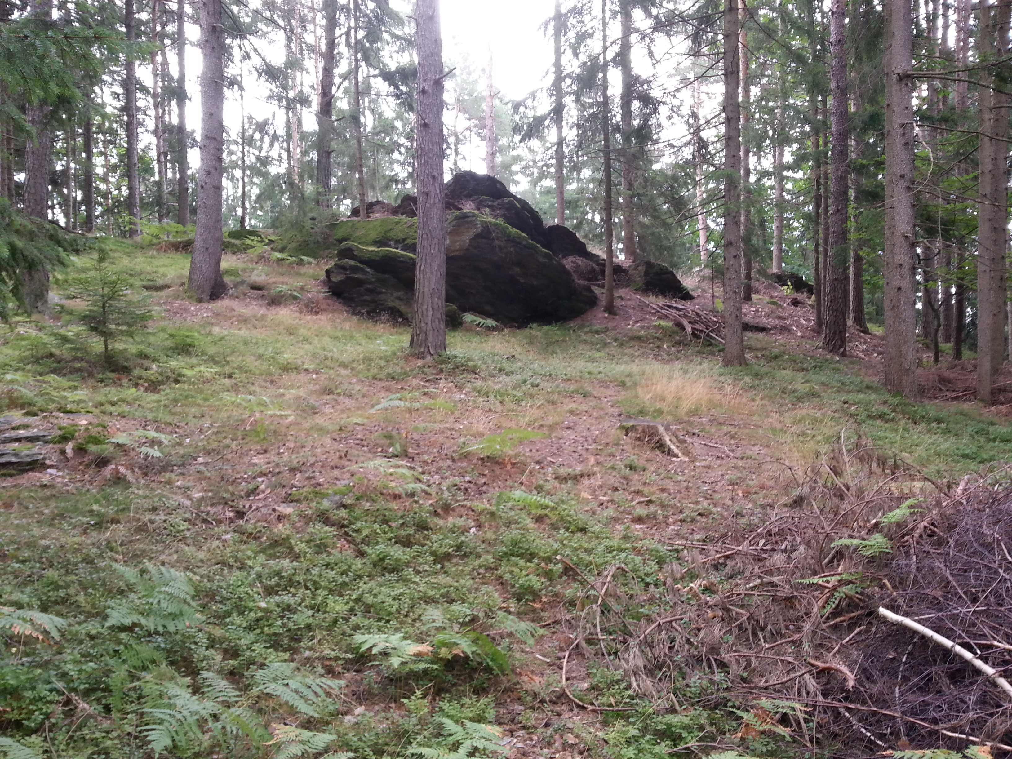 Rock formations near the top of the Wartenstein, Styria